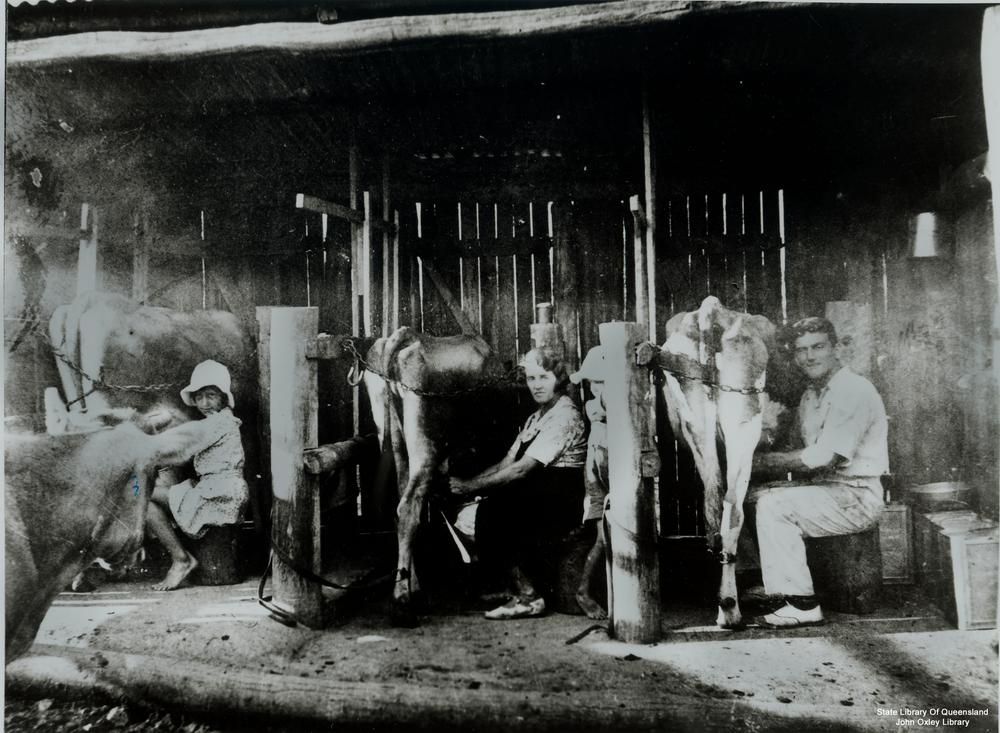 Milking dairy cows on Mallinson's farm, Mount Maroon, Queensland, 1935 Photograph taken in the milking shed at 'Riverview', the Mallinson family property near Mount Maroon, in the Boonah Shire. Hand-milking dairy cows are Florence Jean Mallinson, her mother Annie Elizabeth Mallinson and Mick Sardie. Arthur William Mallinson can be just be seen next to his mother Annie.